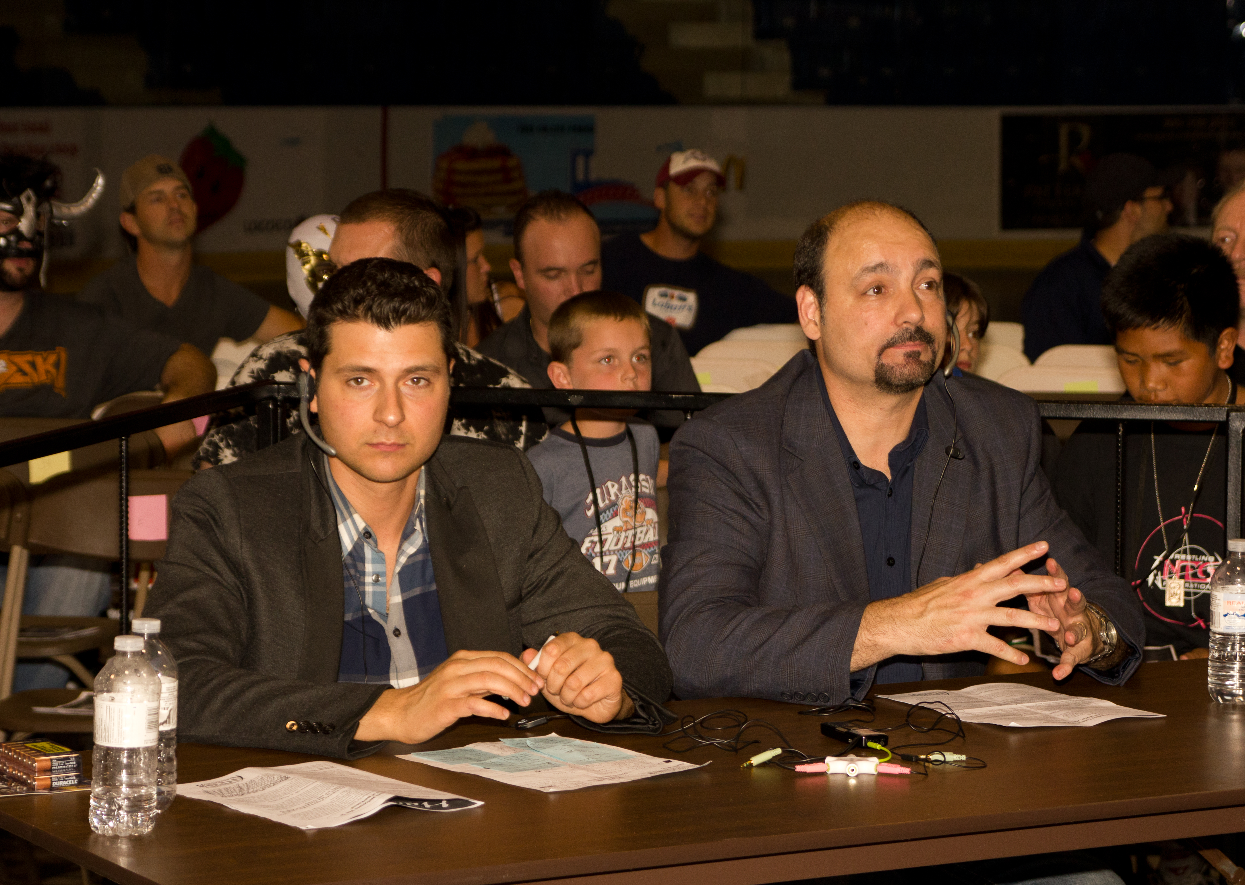 Arda Ocal and Jimmy Korderas ringside doing commentary during Neo Wrestling's "Hart of Darkness" event